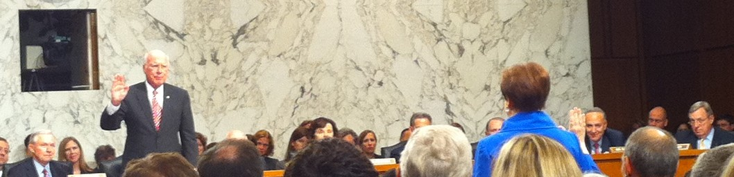 Elena Kagan is sworn in by Chairman Pat Leahy